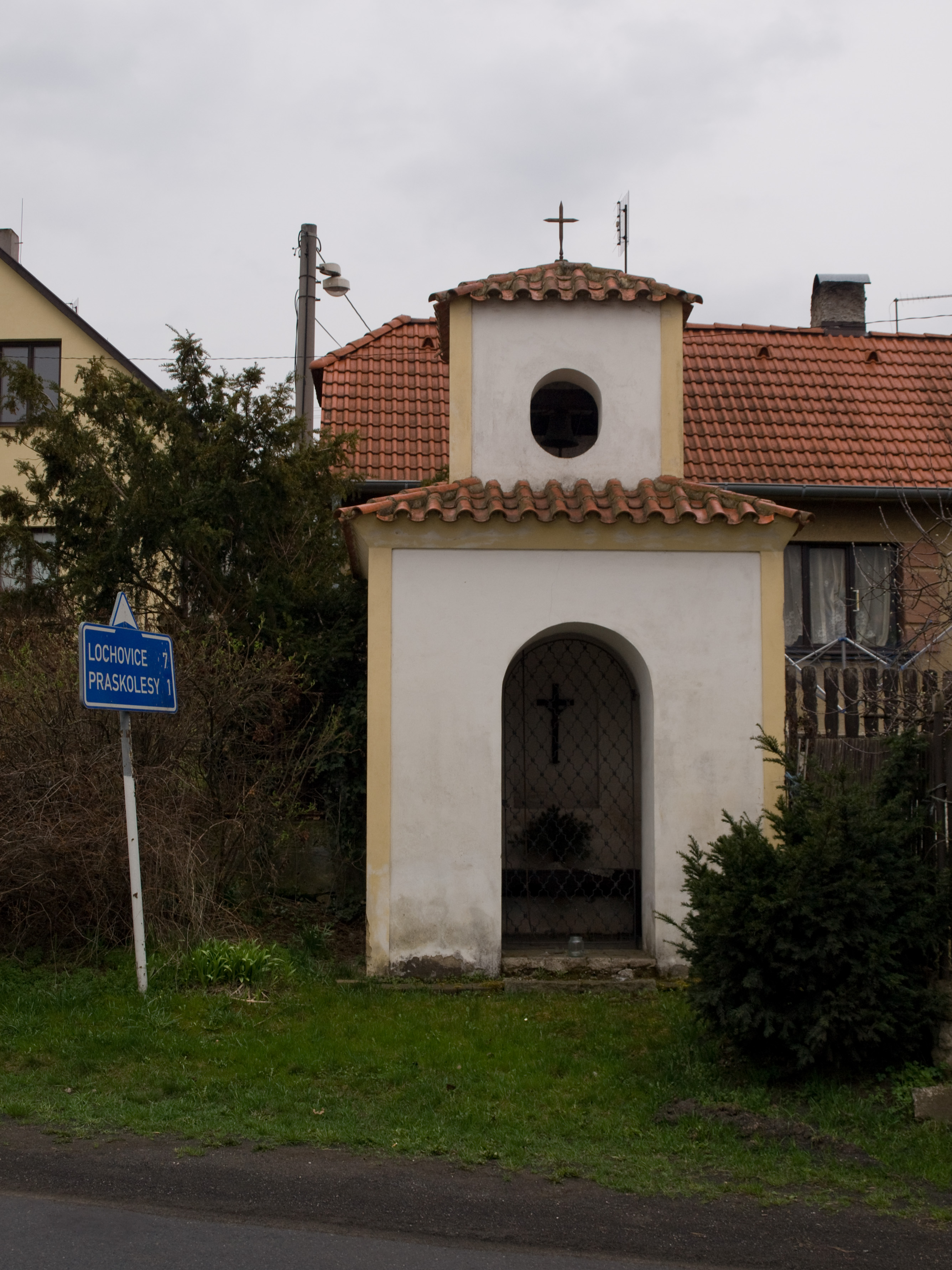 Sedlec, Žebrák, Beroun District, Central Bohemian Region, Czech Republic